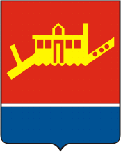 Susuman (Magadan oblast), coat of arms